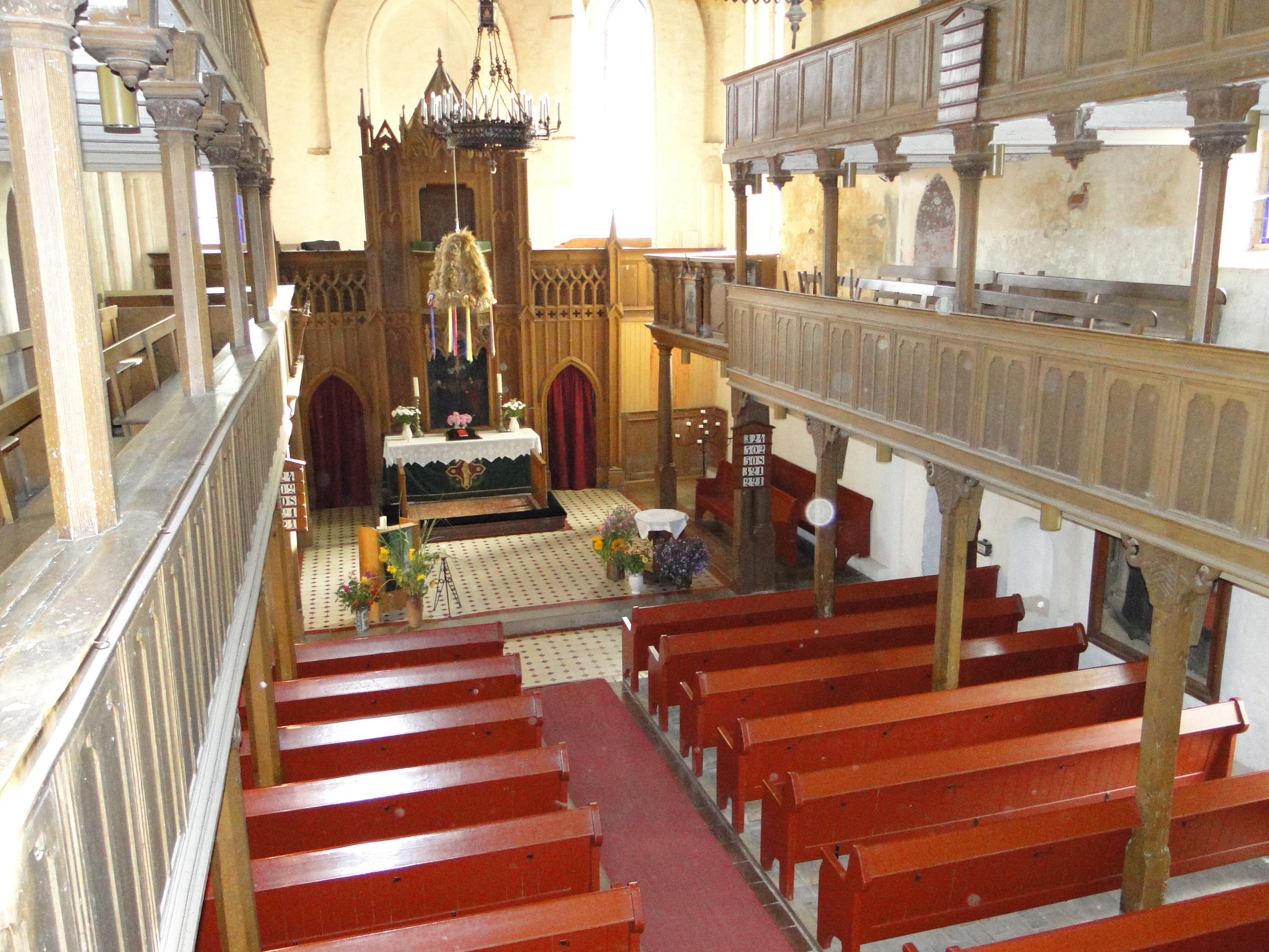 Church in Goldberg, district Ludwigslust-Parchim, Mecklenburg-Vorpommern, Germany